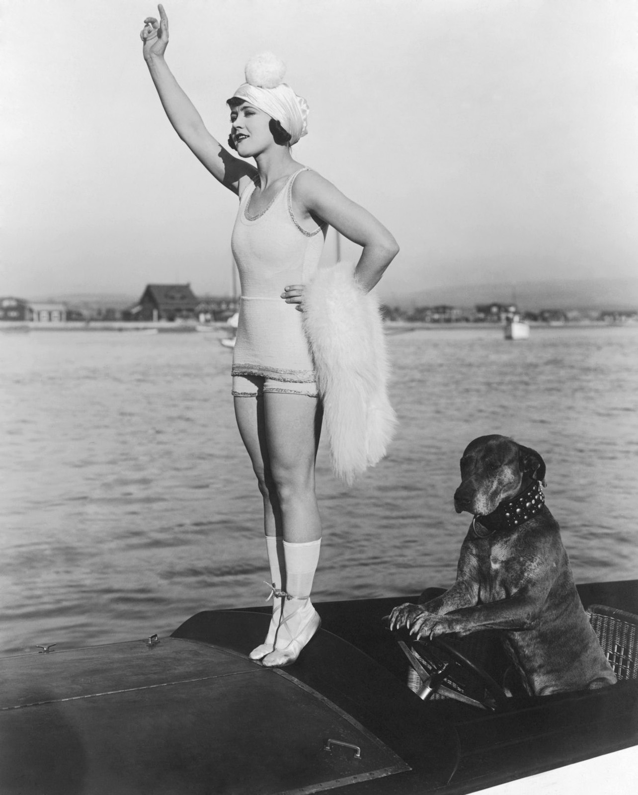 Marie Prevost and Teddy the Dog